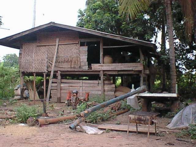 Typical house in Ban Dongphayom, Phitsanulok, Thailand